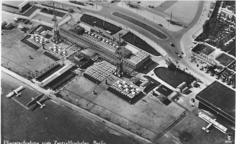 Zentral-Flughafen Berlin (Nr. 9046) Information added by Wikimedia users.